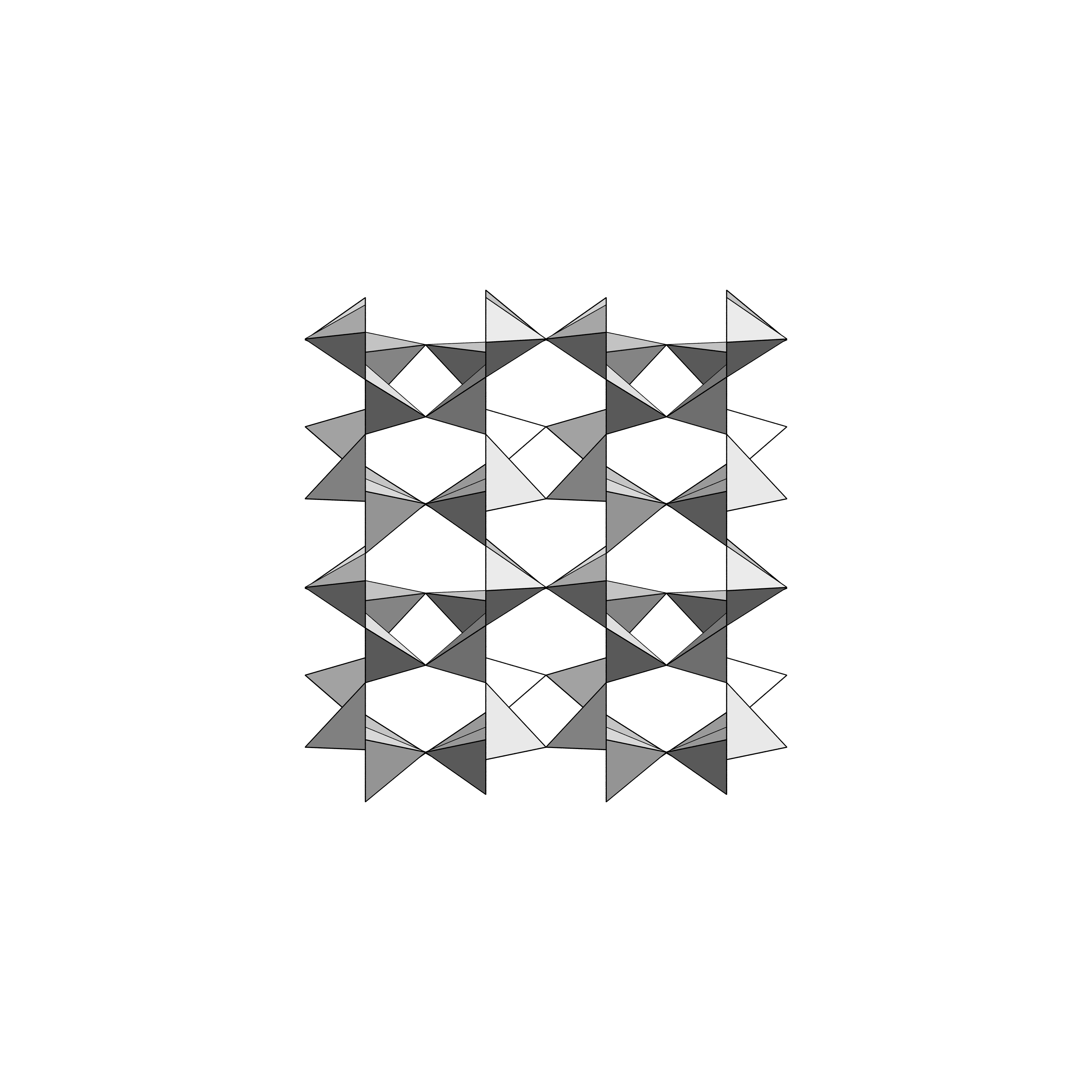 Nepheline silicate framework, view along a-axis Data from: Buerger M J., Klein G E., Donnay G. (1954): Determination of the crystal structure of nepheline, American Mineralogist 39, pp. 805-818 Calculation of image data: Larry W. Finger, Martin Kroeker, and Brian H. Toby, DRAWxtl, an open-source computer program to produce crystal-structure drawings, J. Applied Crystallography V40, pp. 188-192, 2007 Rendering: POVRAY